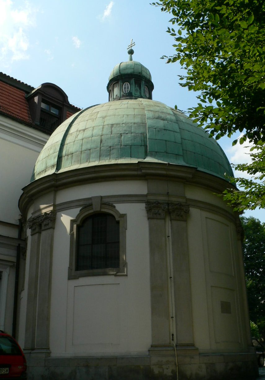 Palace chapel in Kamieniec.